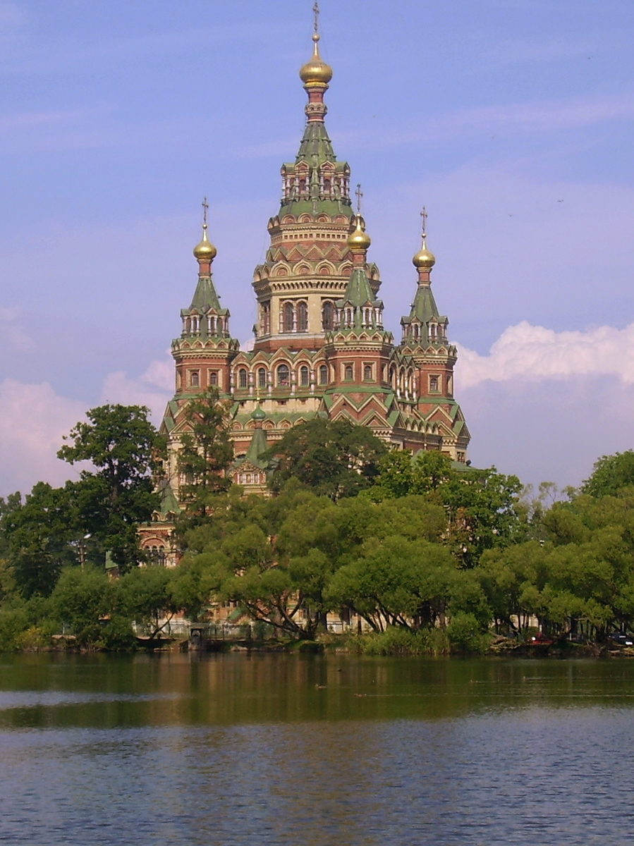 Peterhof (Russia), Cathedral of Peter and Pavel